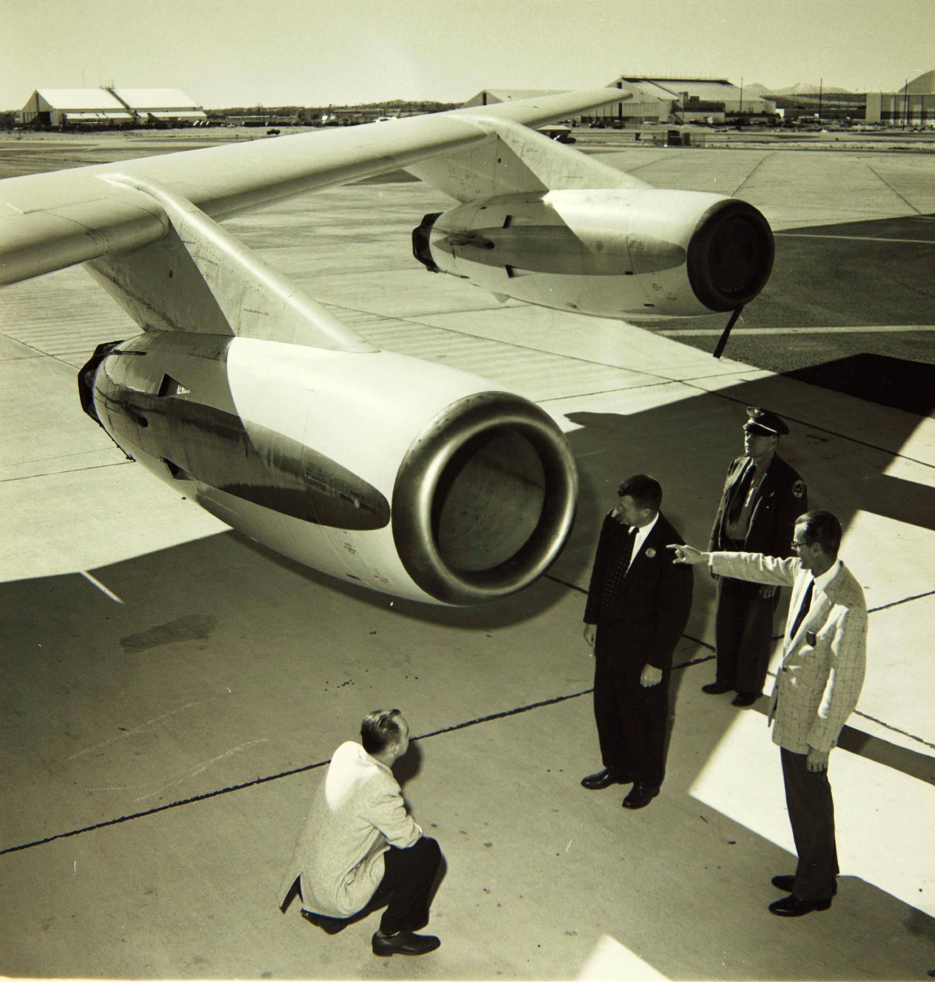 Catalog #: 01_00082860 Title: Convair , 880 Corporation Name: Convair Additional Information: USA Designation: 880 Tags: Convair , 880 Repository: San Diego Air and Space Museum Archive